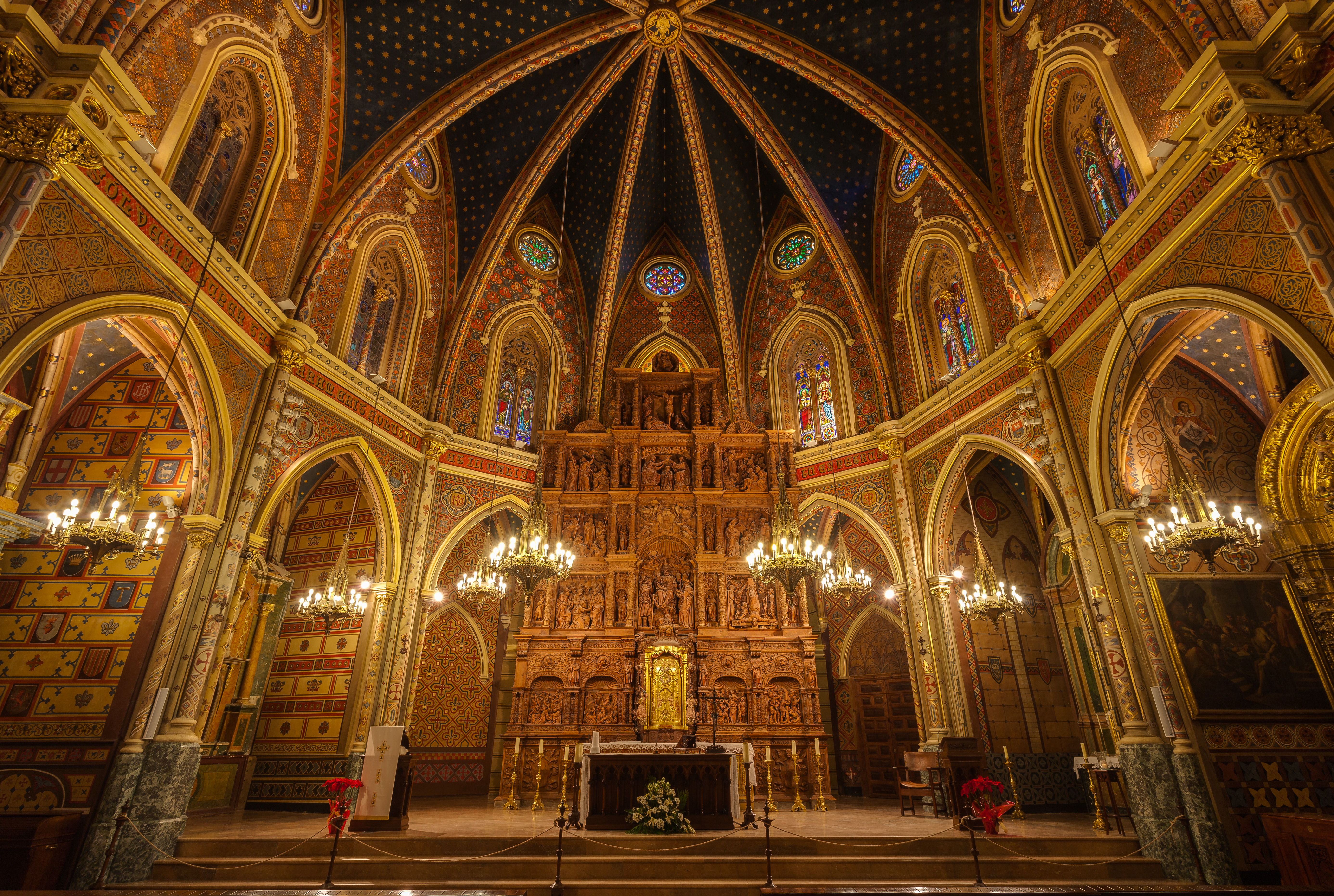 Interior view of St Peter's church in Teruel, Aragón, Spain. The church, of mudéjar style was built in the 14th century and was declared World Heritage in 1986. The decoration, performed between 1896-1902, is a neo-mudéjar style.